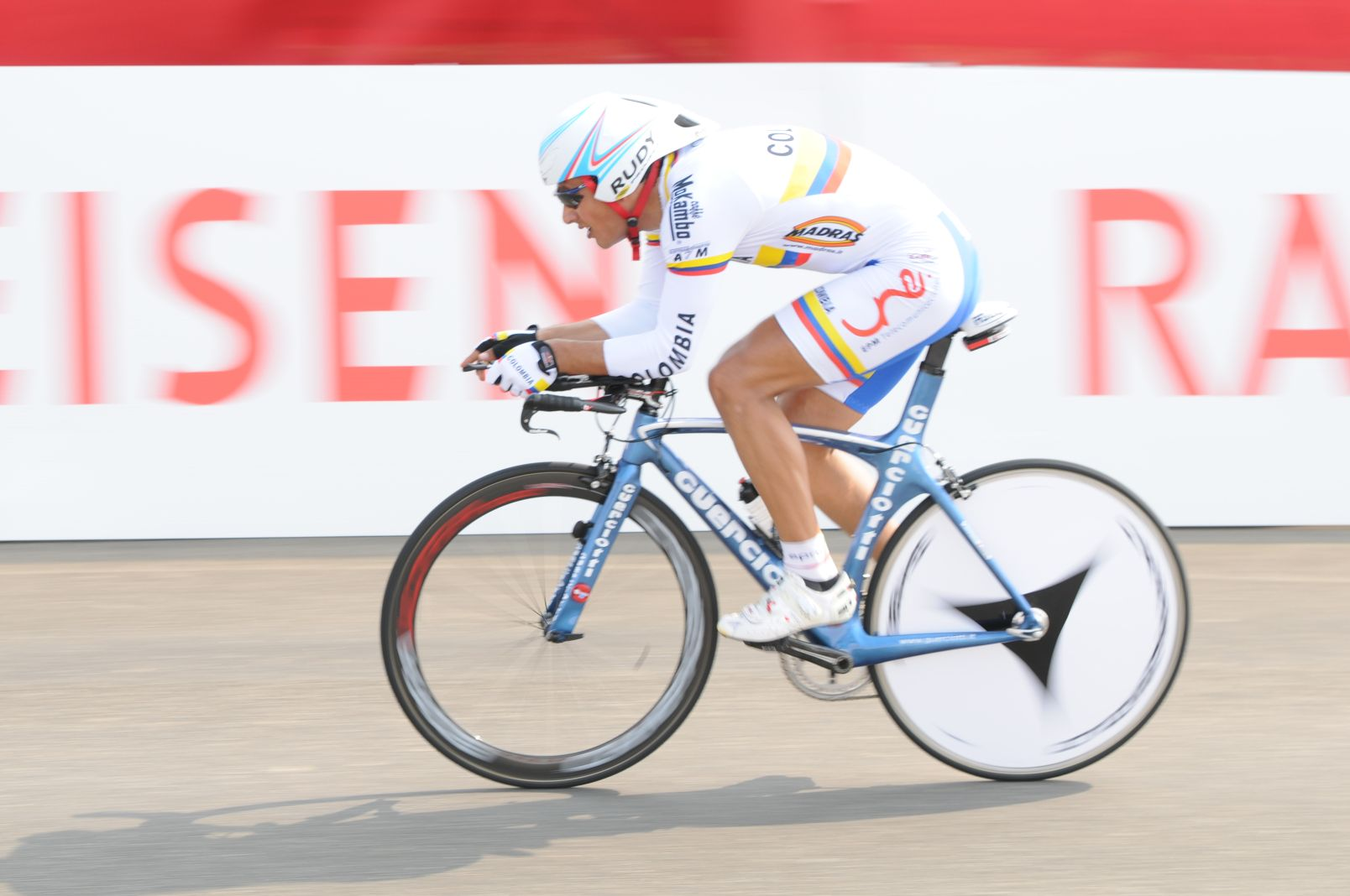 Juan Carlos López Marín at UCI World Championships in Mendrisio, Switzerland